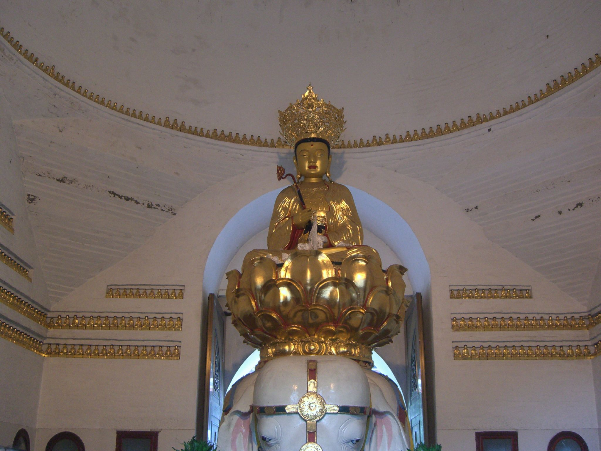 Puxian Buddha - Puxian Hall, Long Life Monastery